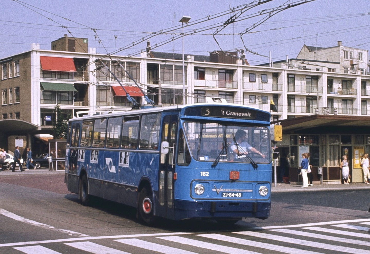 Arnhem trolleybus 162, a 1969 Leyland-Verheul trolleybus, pulling out of the old railway station bus loop (at Stationsplein), bound for 't Cranevelt on route 3. The trolleybuses of this type in Arnhem's fleet used recycled electrical equipment from scrapped BUT trolleybuses built in 1949/50. The last trolleybuses of this type were withdrawn from service at the end of 1984.